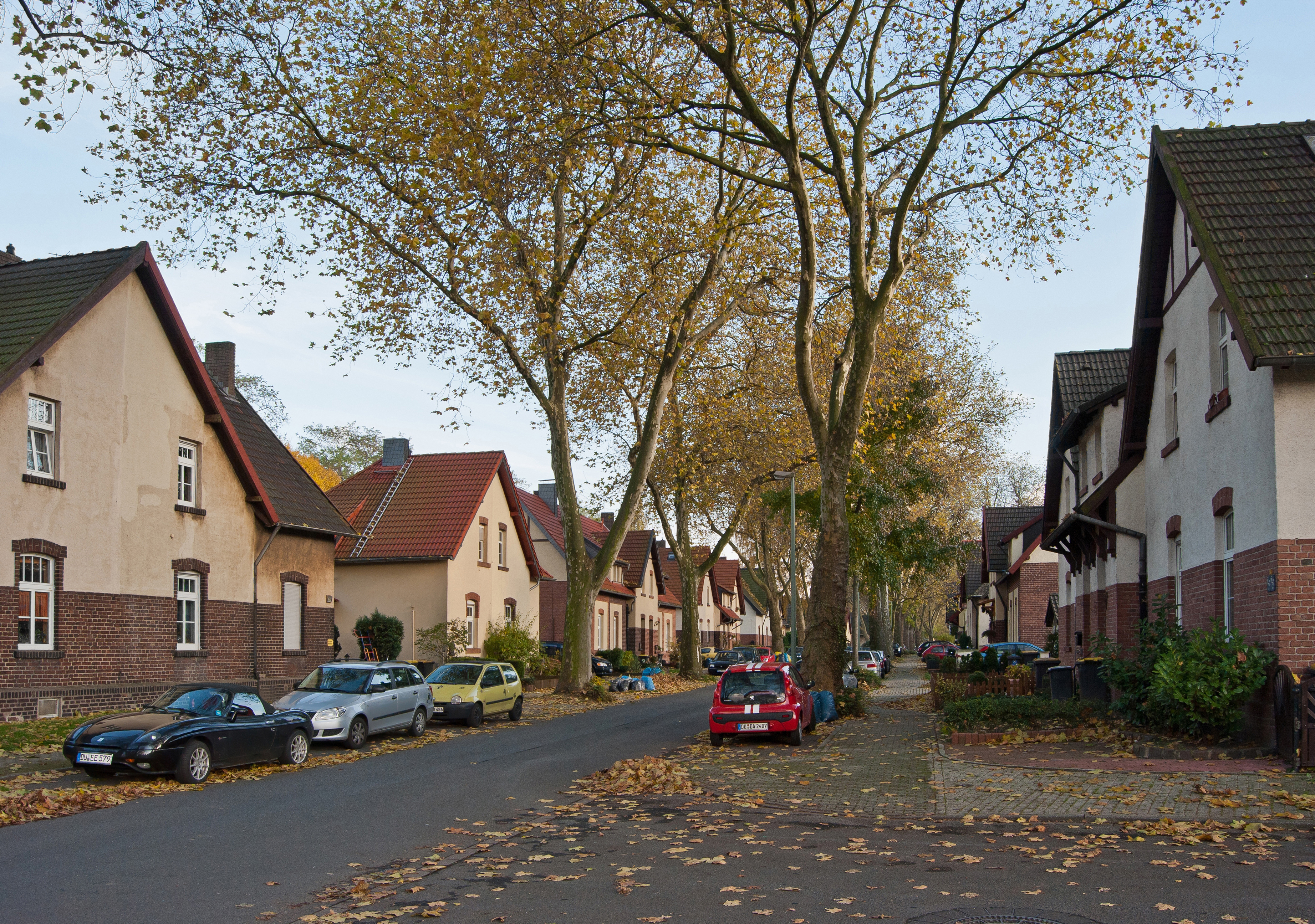 Duisburg (North Rhine-Westphalia, Germany) – borough Hamborn, district Neumühl – mine colony Siedlung Bergmannsplatz – houses This image shows a heritage building in Germany, located in the North Rhine-Westphalian city Duisburg (no. 88, 400). This photograph was taken with a Nikon D3000